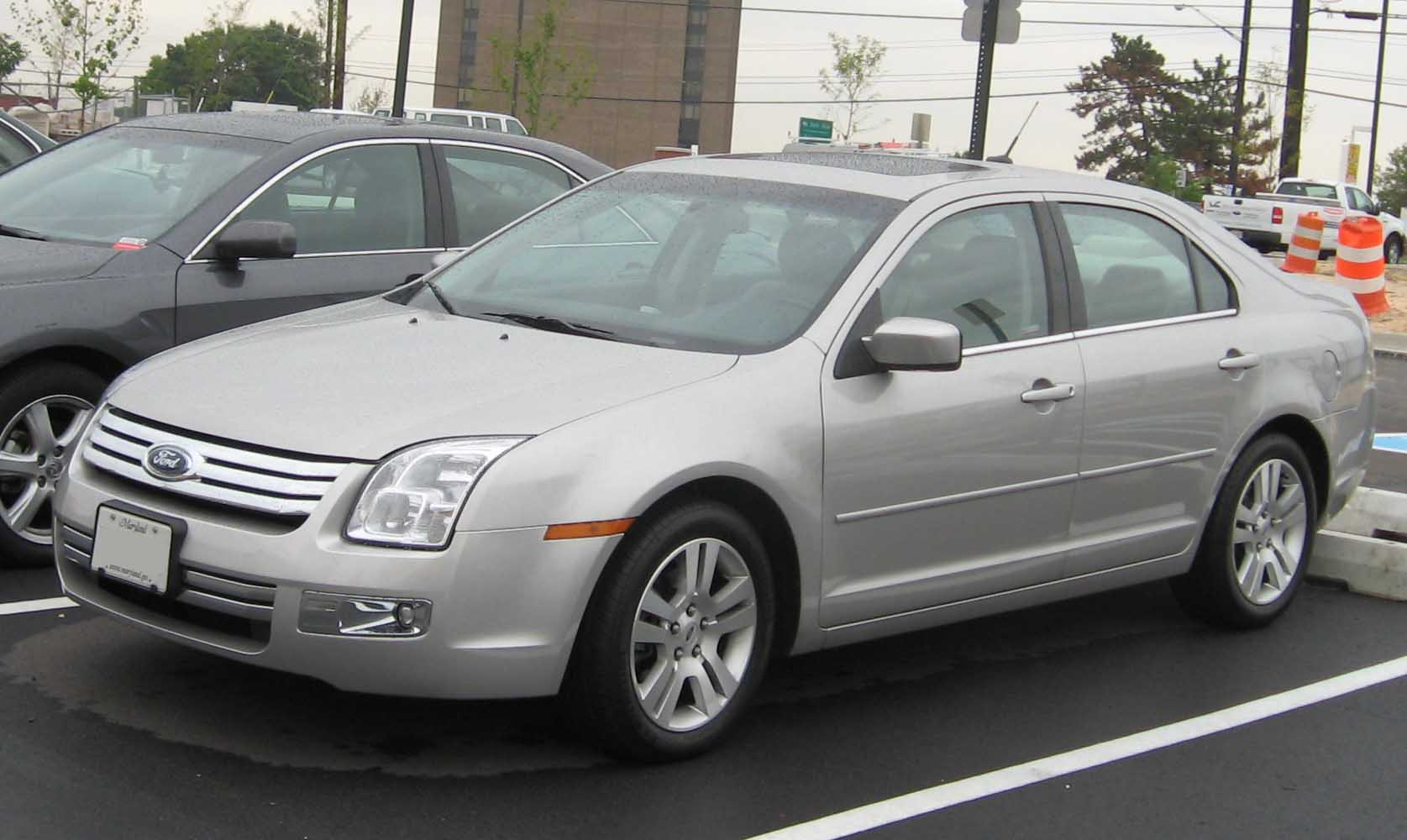 2006-2008 Ford Fusion photographed in College Park, Maryland, USA.